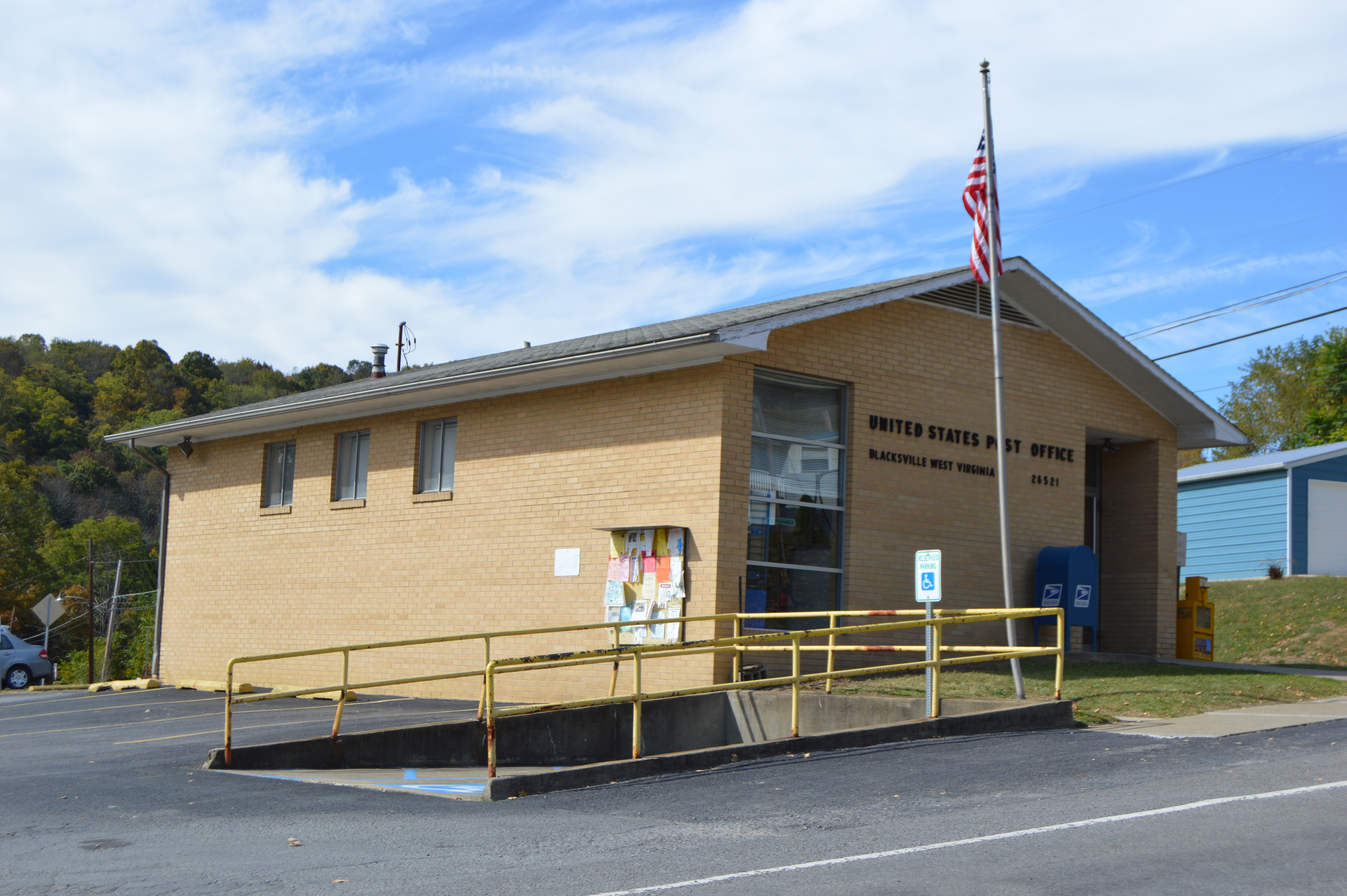 Front and southern side of the post office in Blacksville, West Virginia, United States, located at 46 Daybrook Road (West Virginia Route 218.